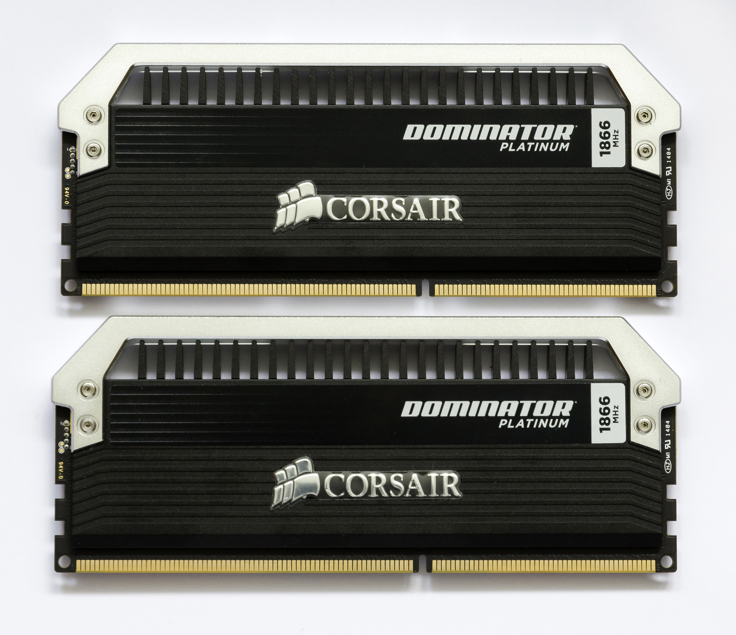 Corsair Dominator Platinum 2x4GB, 1866MHz